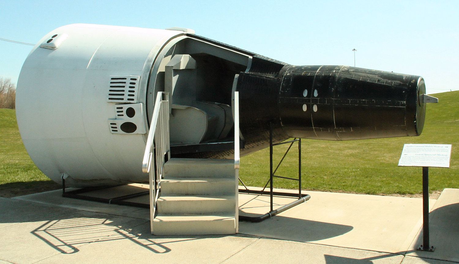 Gemini capsule replica at the Armstrong Air and Space Museum in Wapakoneta, Ohio. Photo shot by Derek Jensen (Tysto), 2006-04-10